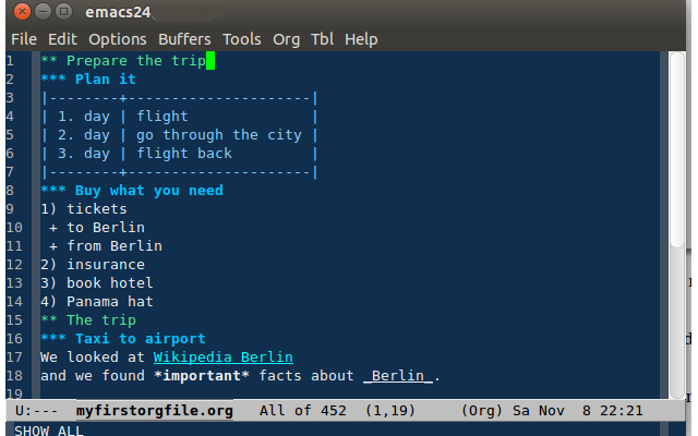 a org file shows all trees